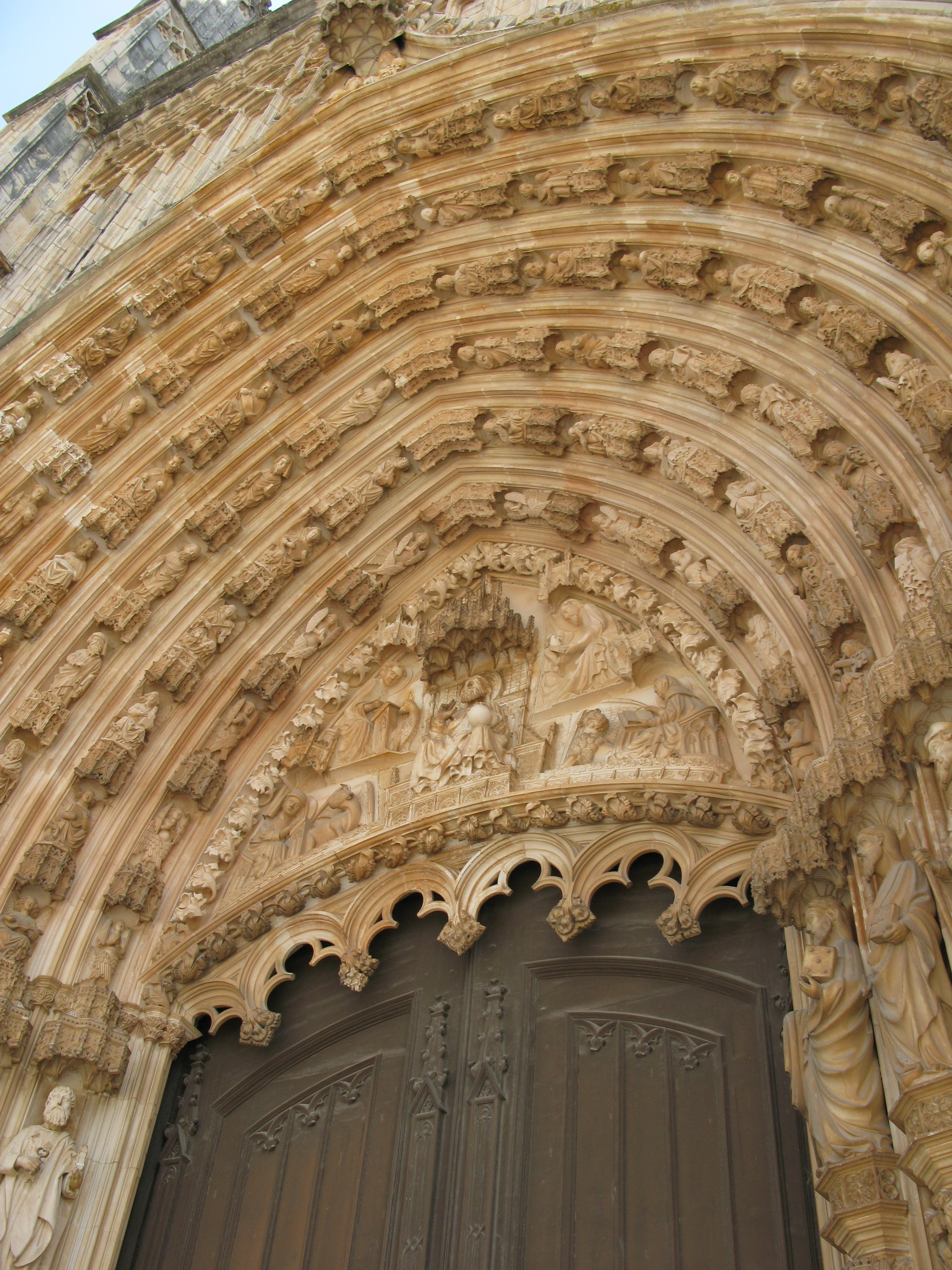 Main portal of Batalha Monastery, Portugal